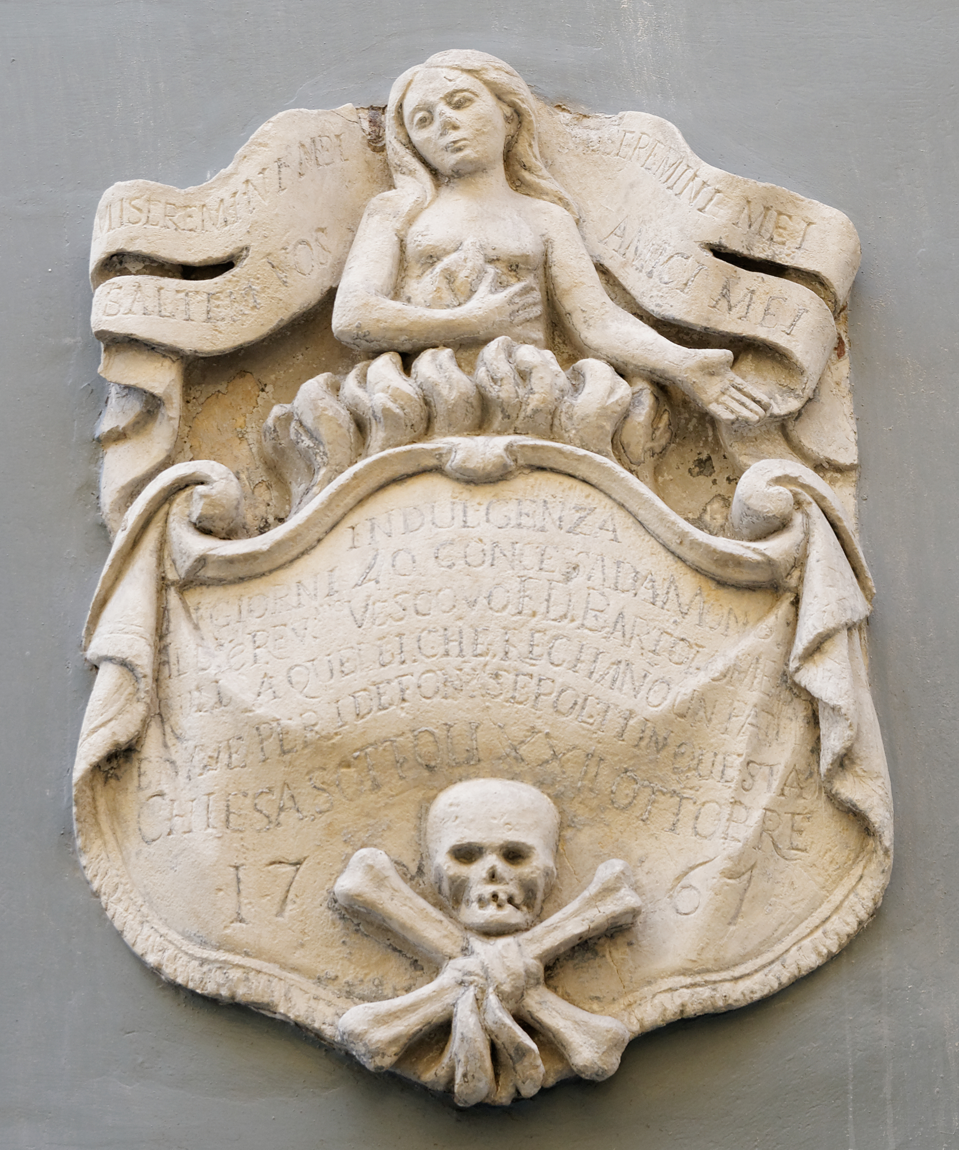 Indulgence of 40 days outside of a church in Valletta, Malta.